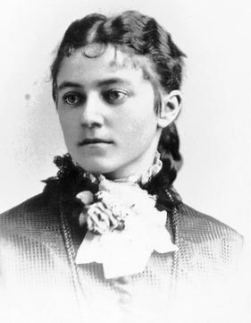 1898: The Department of Pedagogy grants its first Ph.D. to Millicent Washburn Shinn. Hers is the first doctoral degree earned by a woman in the University of California.